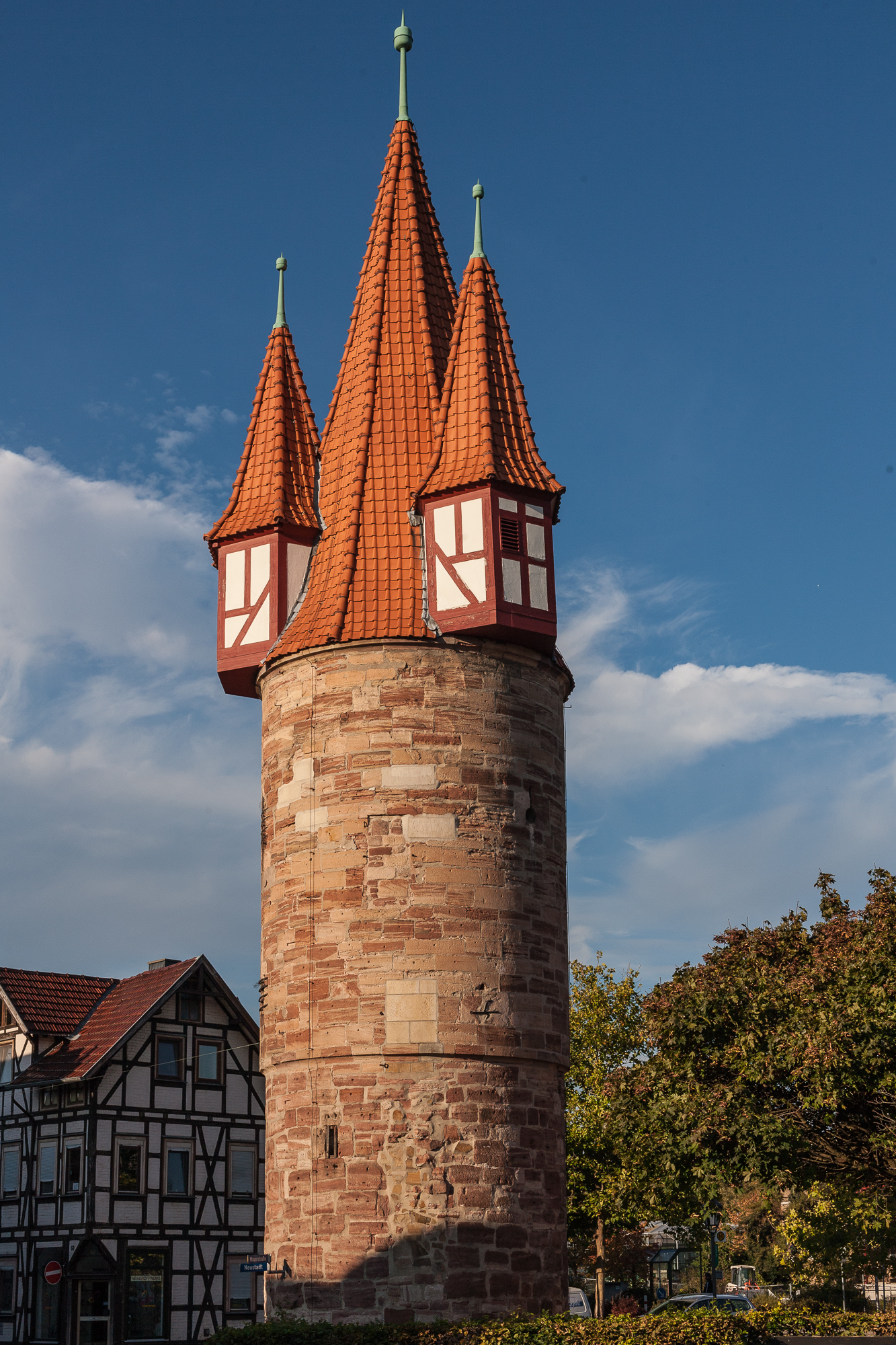 Dünzerbacher Torturm in Eschwege. This is one of the last remainings of the city's former fortification. The current version of this tower dates from the 17th century and was also used as a prison.